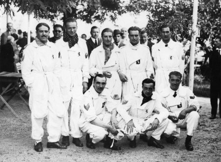 Raffaele Chianese - pilot at 4° Fighter Storm (4° Stormo Caccia) based in Gorizia, (IT) and his wife, Beatrice Pian.